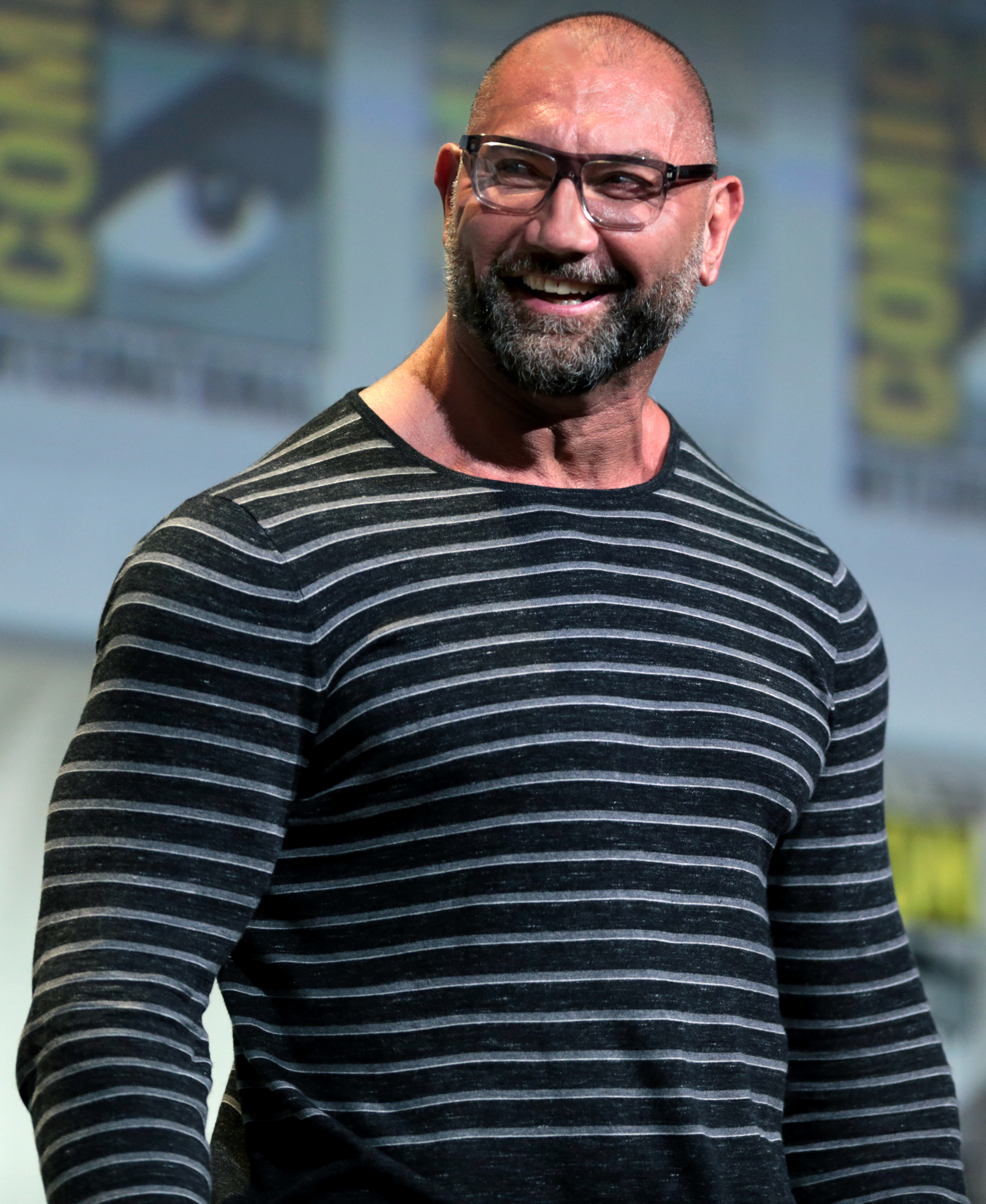 Dave Bautista speaking at the 2016 San Diego Comic-Con International in San Diego, California.